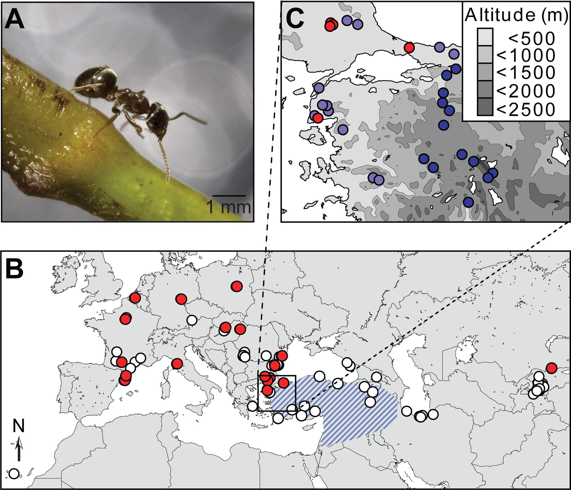 Currently known worldwide distribution of Lasius neglectus and L. turcicus